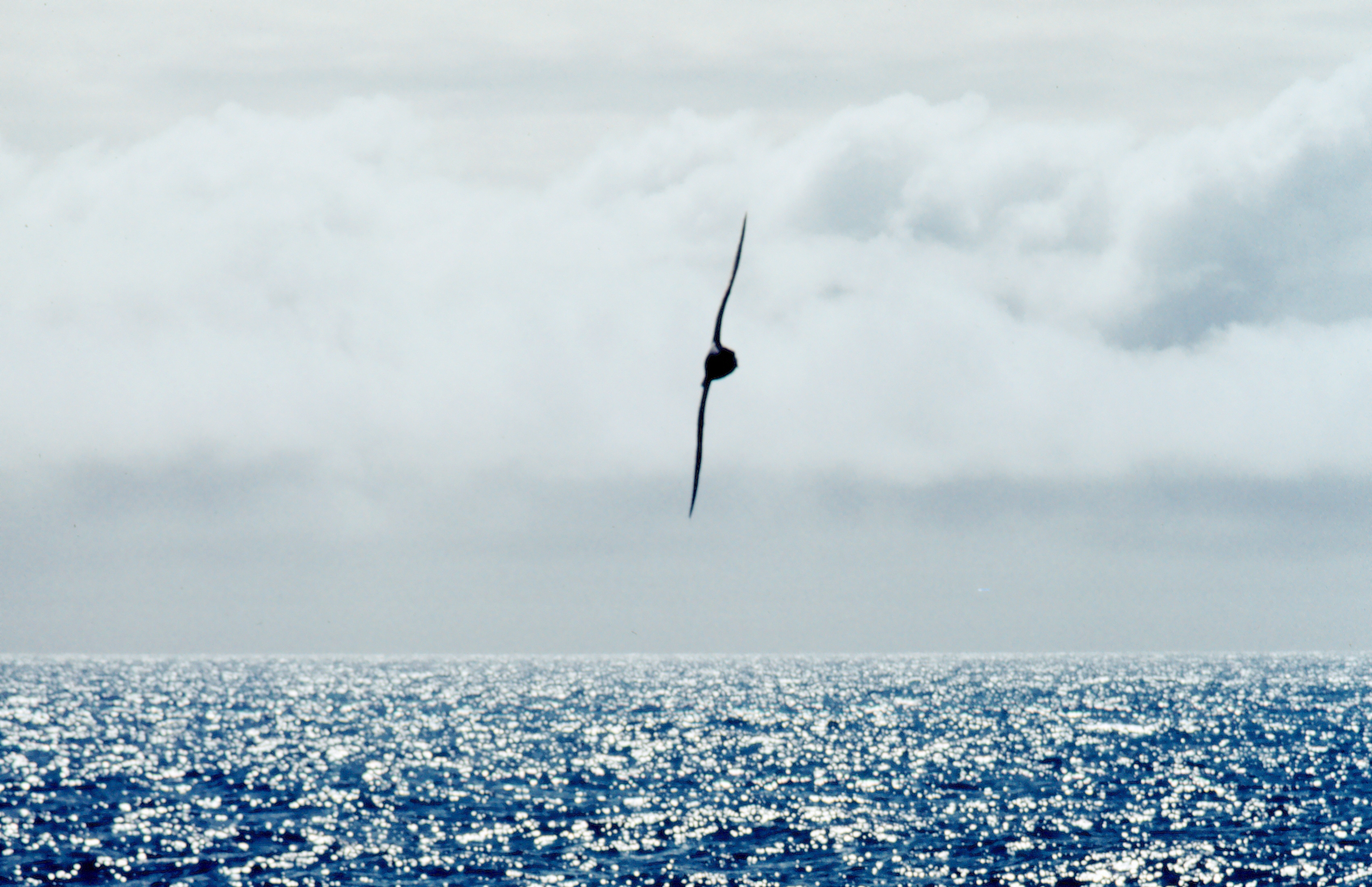 Albatross (unknown species) photographed in the Gulf of Alaska